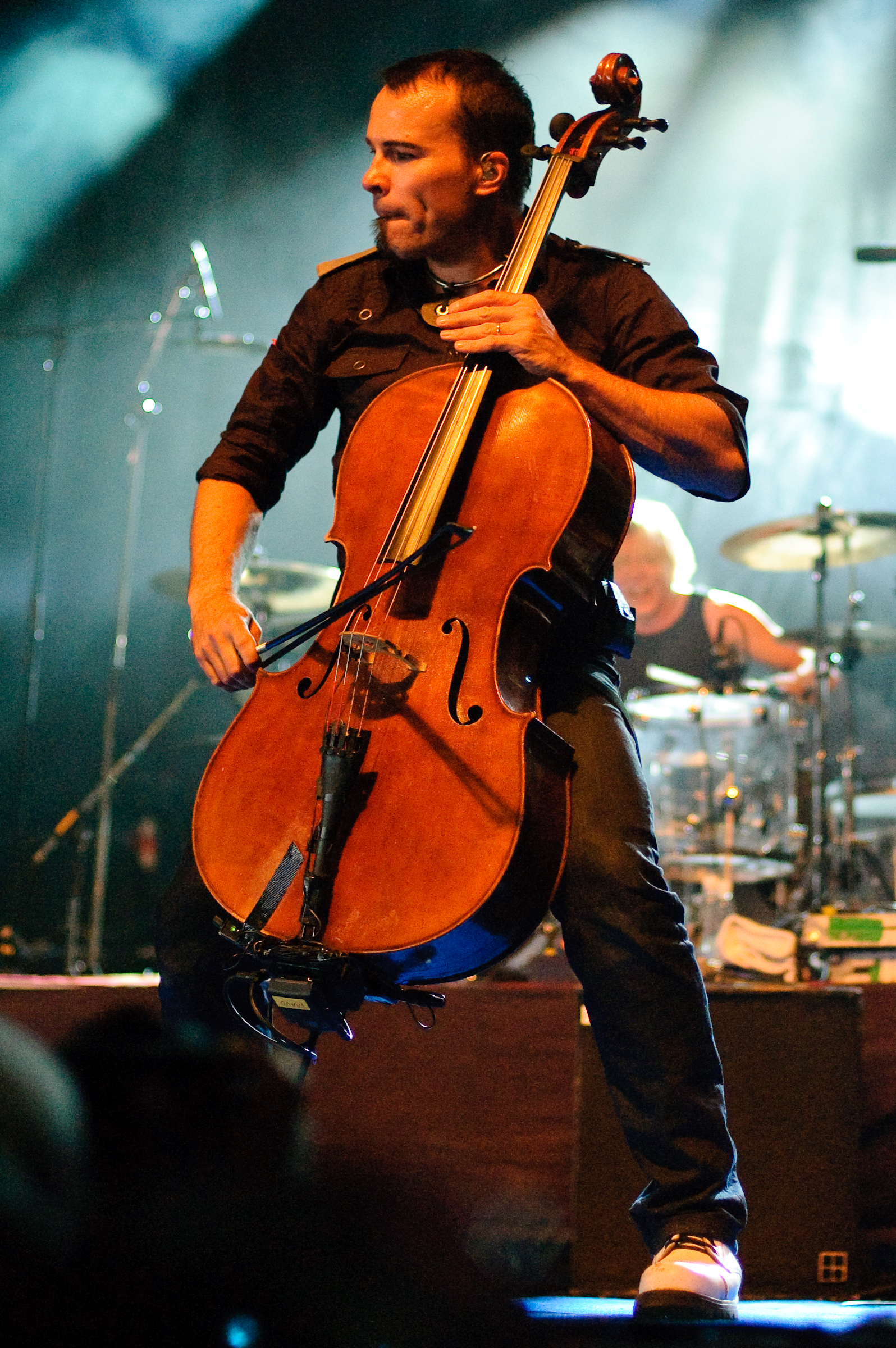 Cellist Paavo Lötjönen of Apocalyptica performing at the Ilosaarirock festival in Joensuu, Finland.